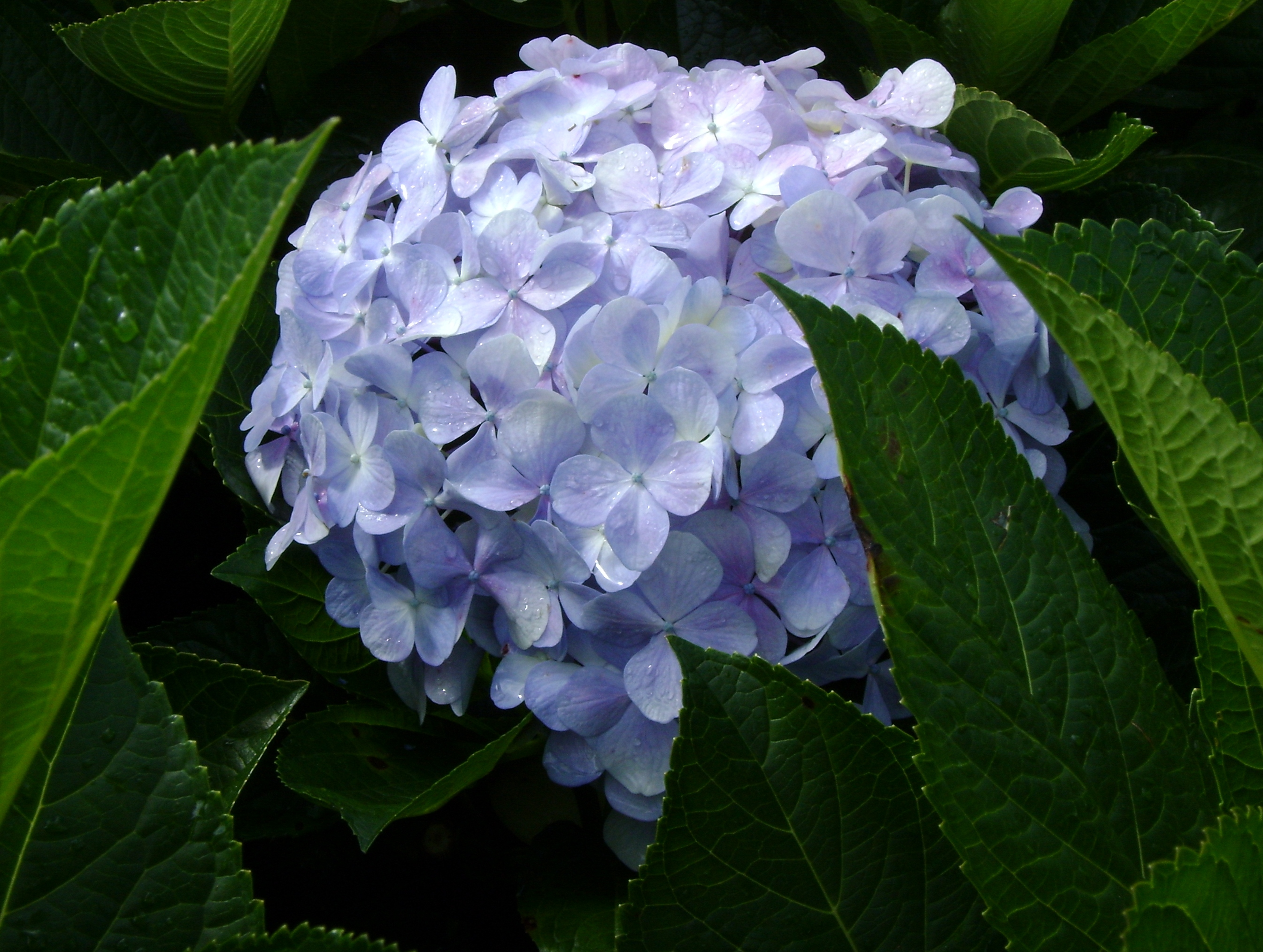 Hydrangea is a typical plant in Dalat City, Vietnam.